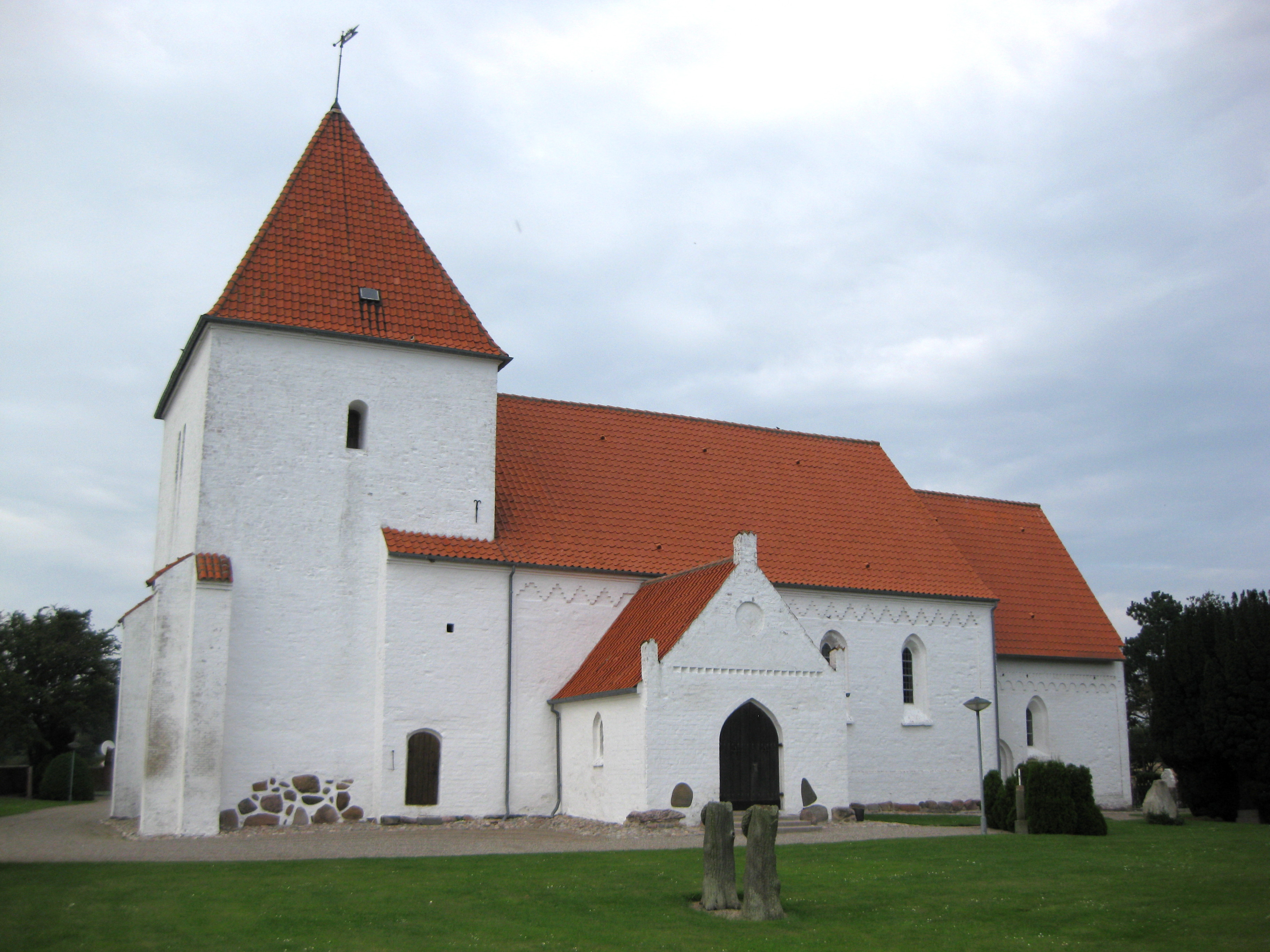 The church "Fejø Kirke" on the small island Fejø. It is located north of the island Lolland in east Denmark.